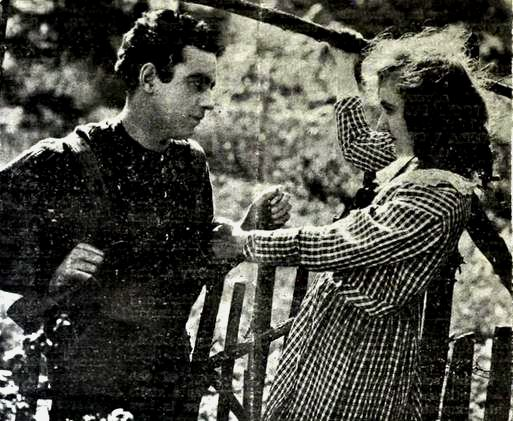 Still from the American drama film When Bearcat Went Dry with Bernard J. Durning and Vangie Valentine, on page 1 of the June 4, 1919 Film Daily.